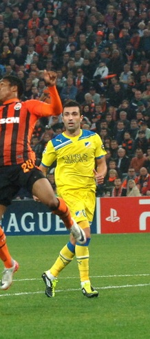 Marcelo Olivera is a Greek goalkeeper